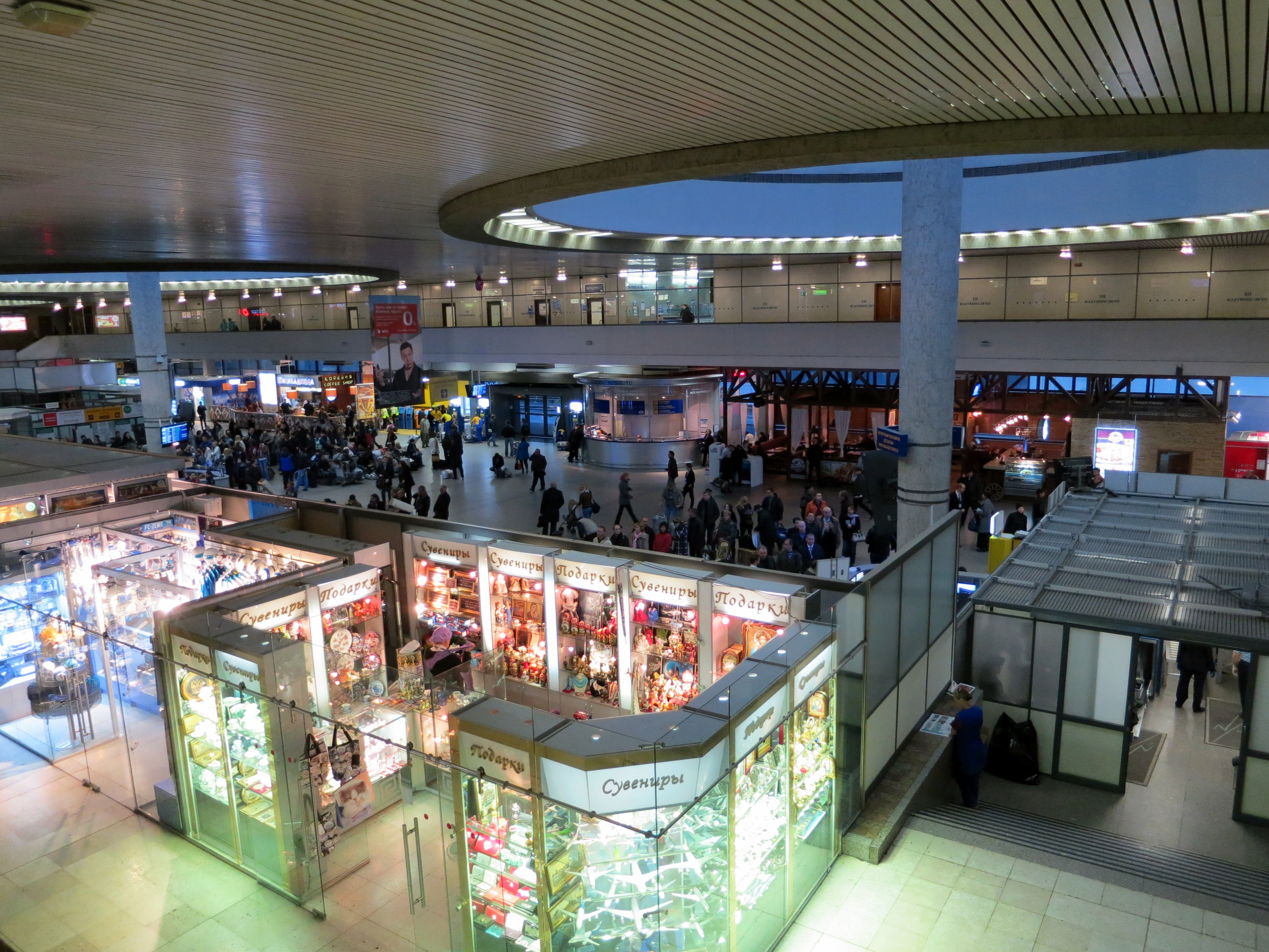 Pulkovo Airport, Saint Petersburg, Russia